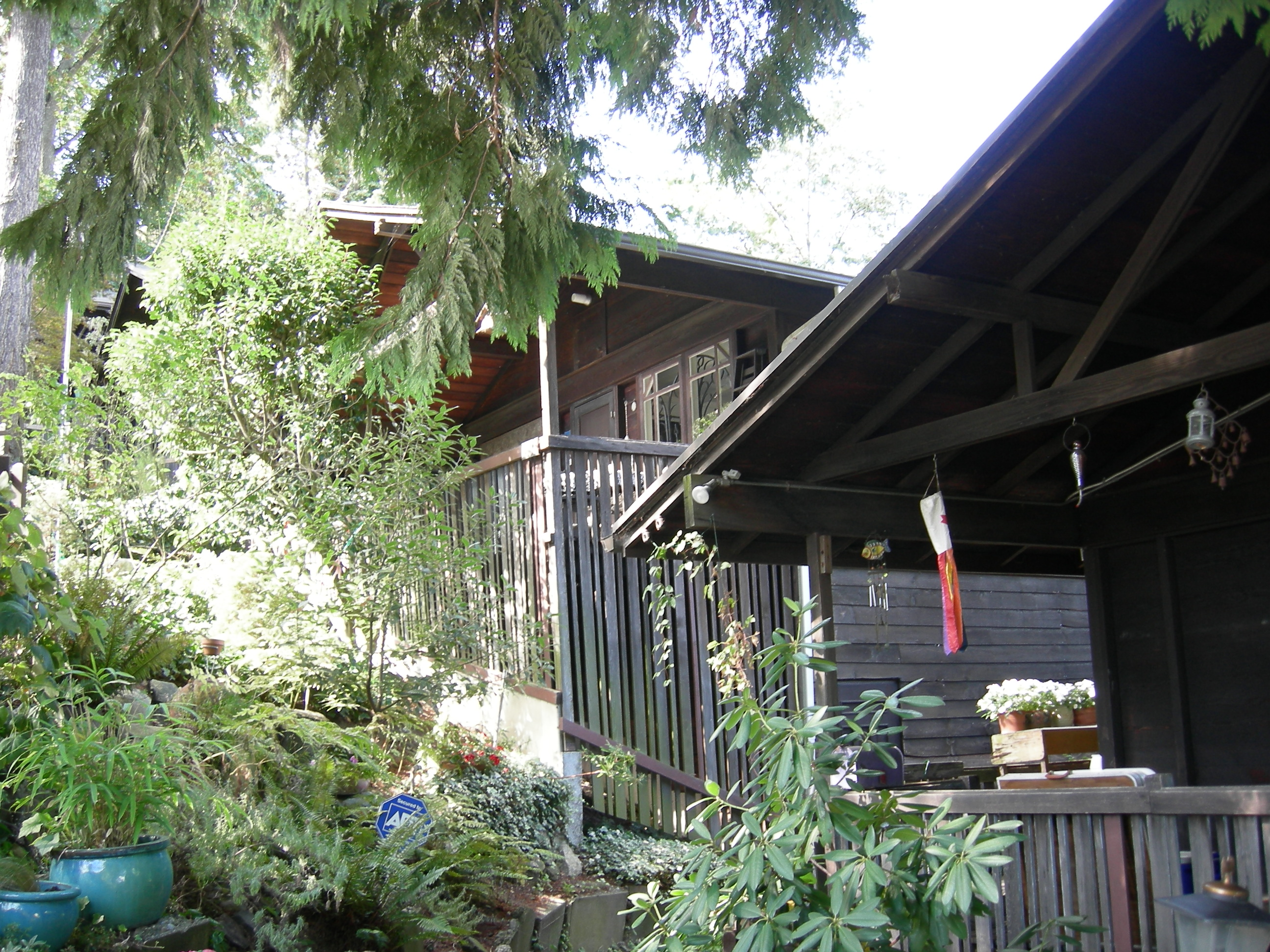 Ellsworth Storey Cottages (1706–1816 S. Lake Washington Blvd. and 1725–1729 S. 36th Ave.), near Colman Park in the Mount Baker neighborhood of Seattle, Washington, USA. The cottages are listed on the National Register of Historic Places, ID #76001891.